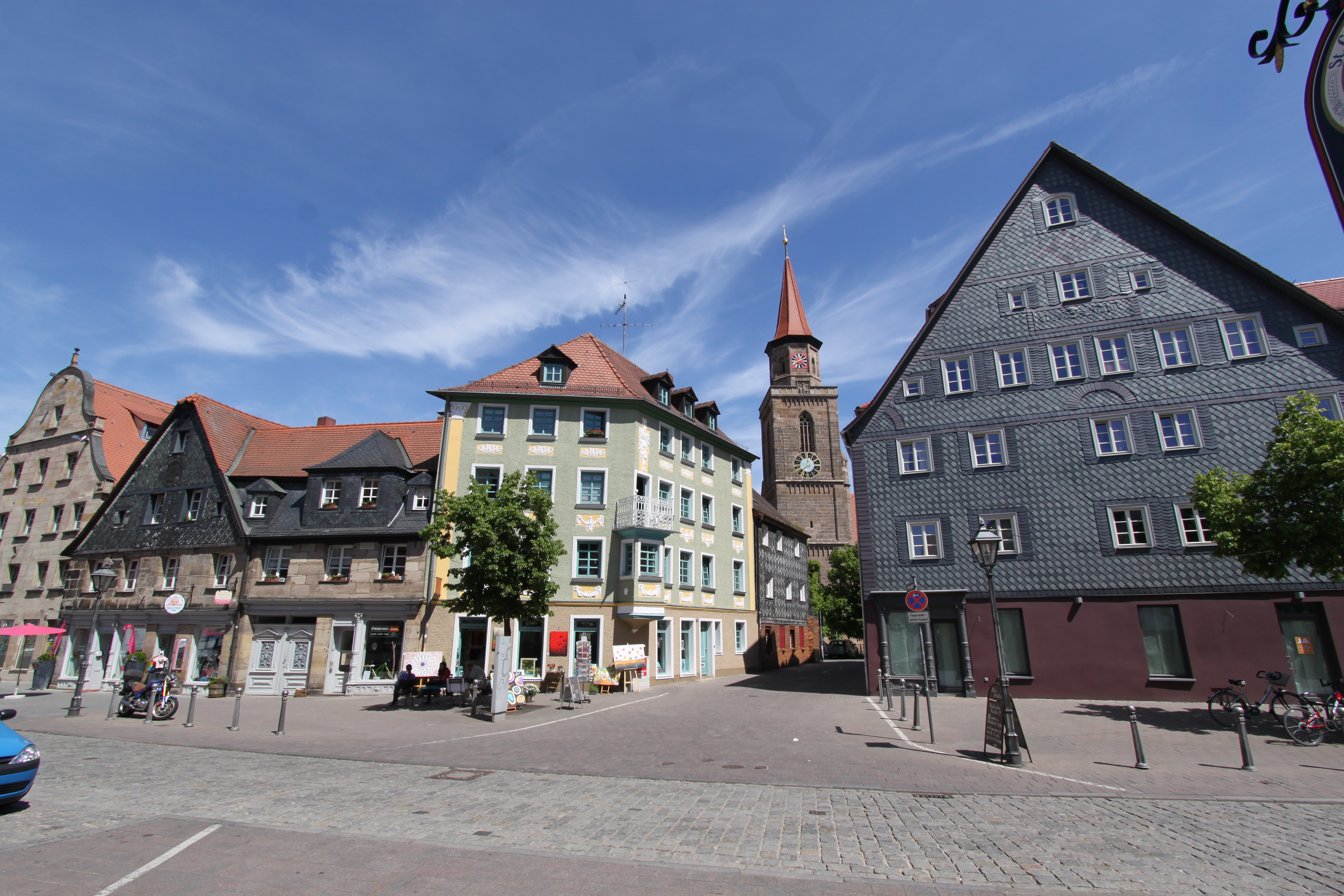 Fuerth (Bavaria): Gustavstraße at the entrance to Kirchenplatz